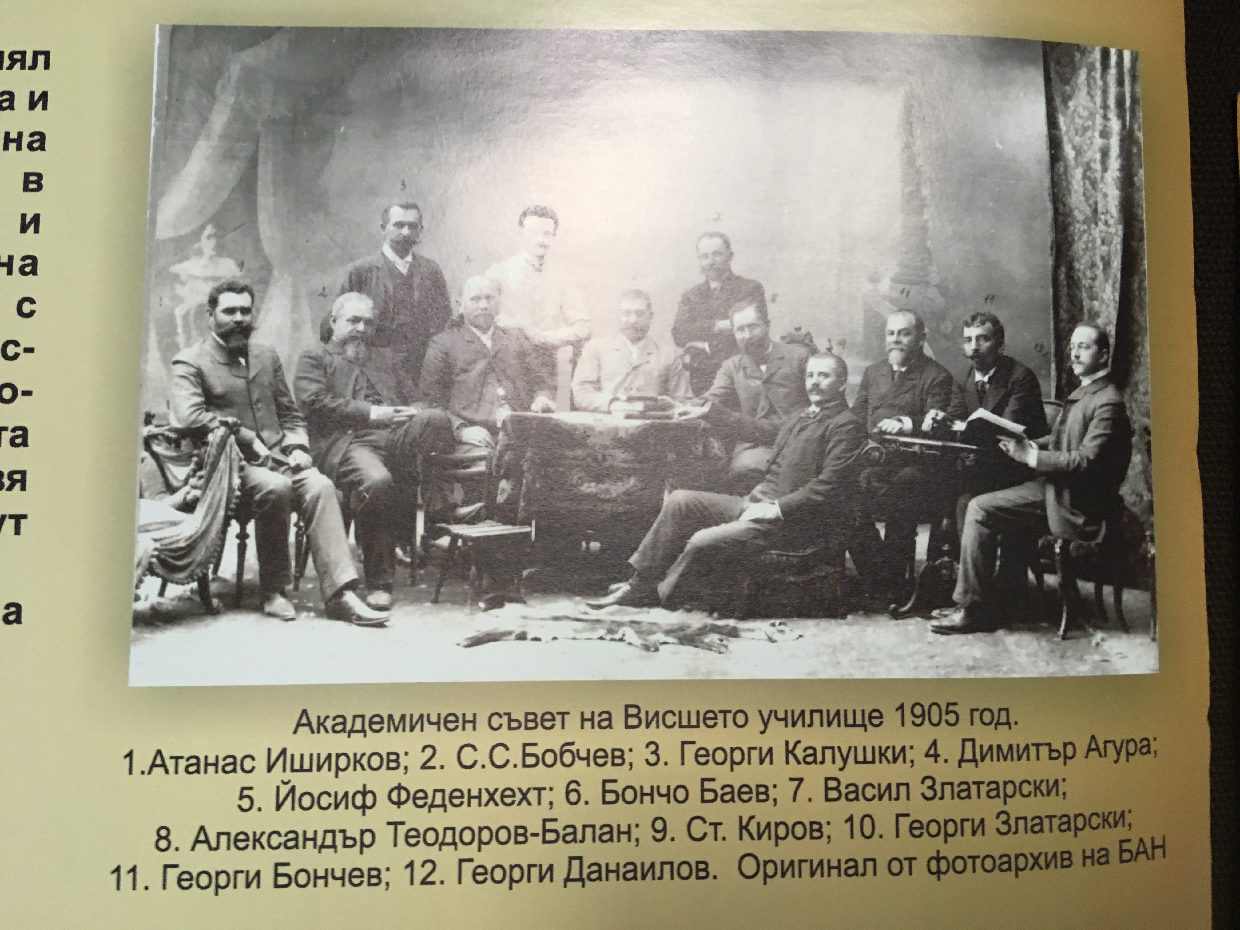 Georgi-Zlatarski Mineralogy